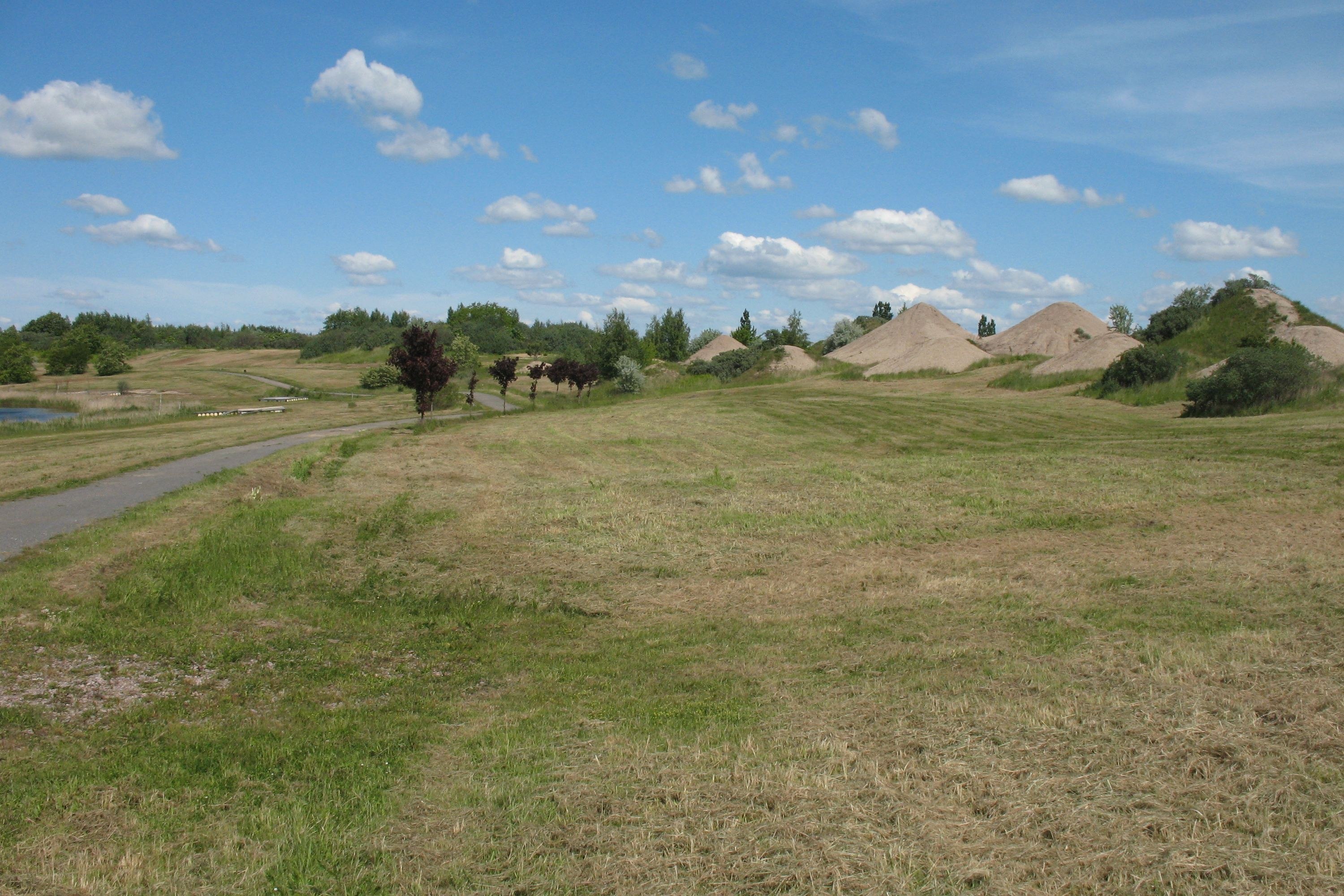 Pouch Peninsula in the municipality Muldestausee in Saxony-Anhalt, Germany